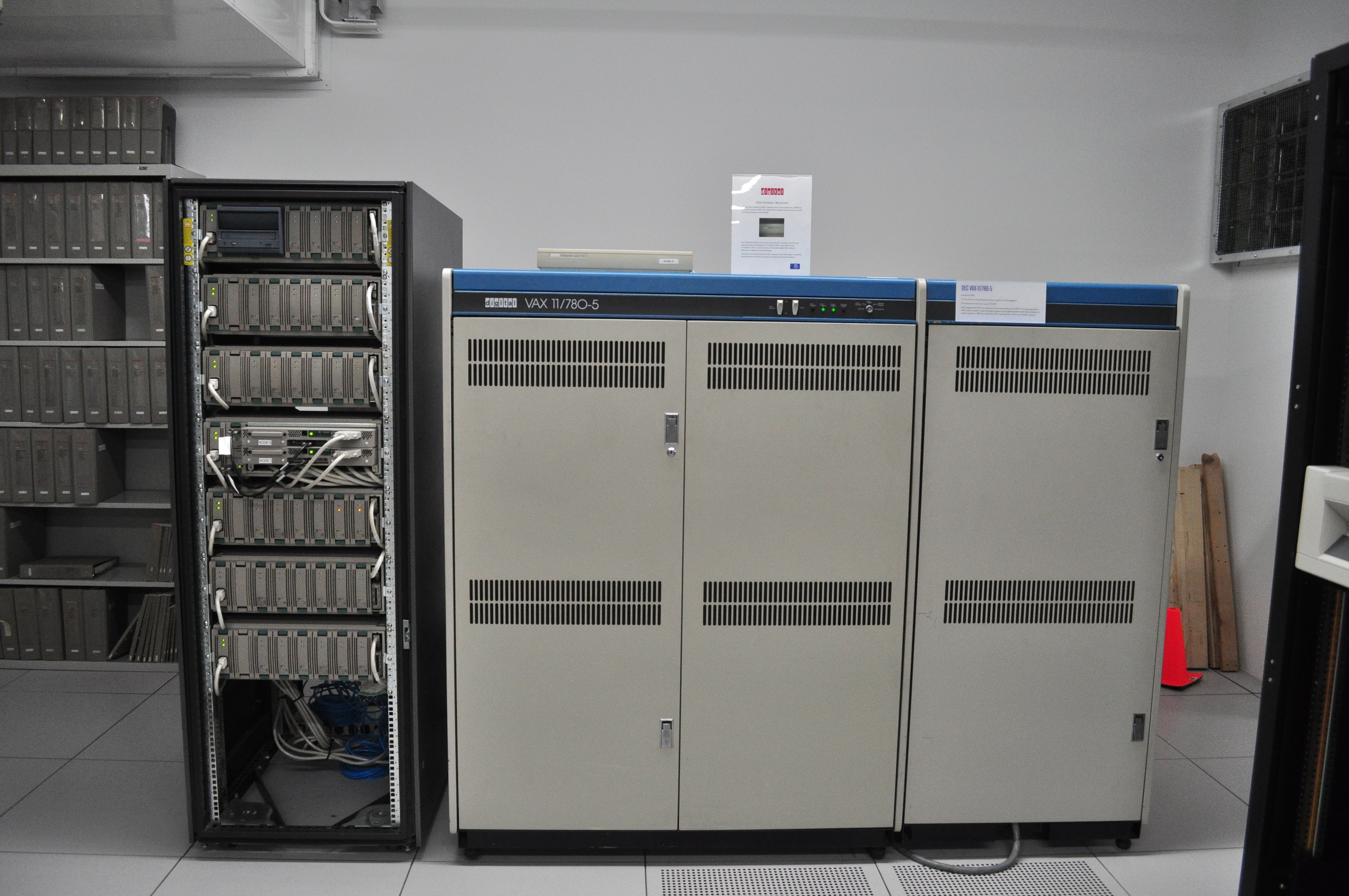 Digital Equipment Corporation (DEC) VAX 11/780-5 computer, Living Computer Museum, Seattle, Washington, USA.